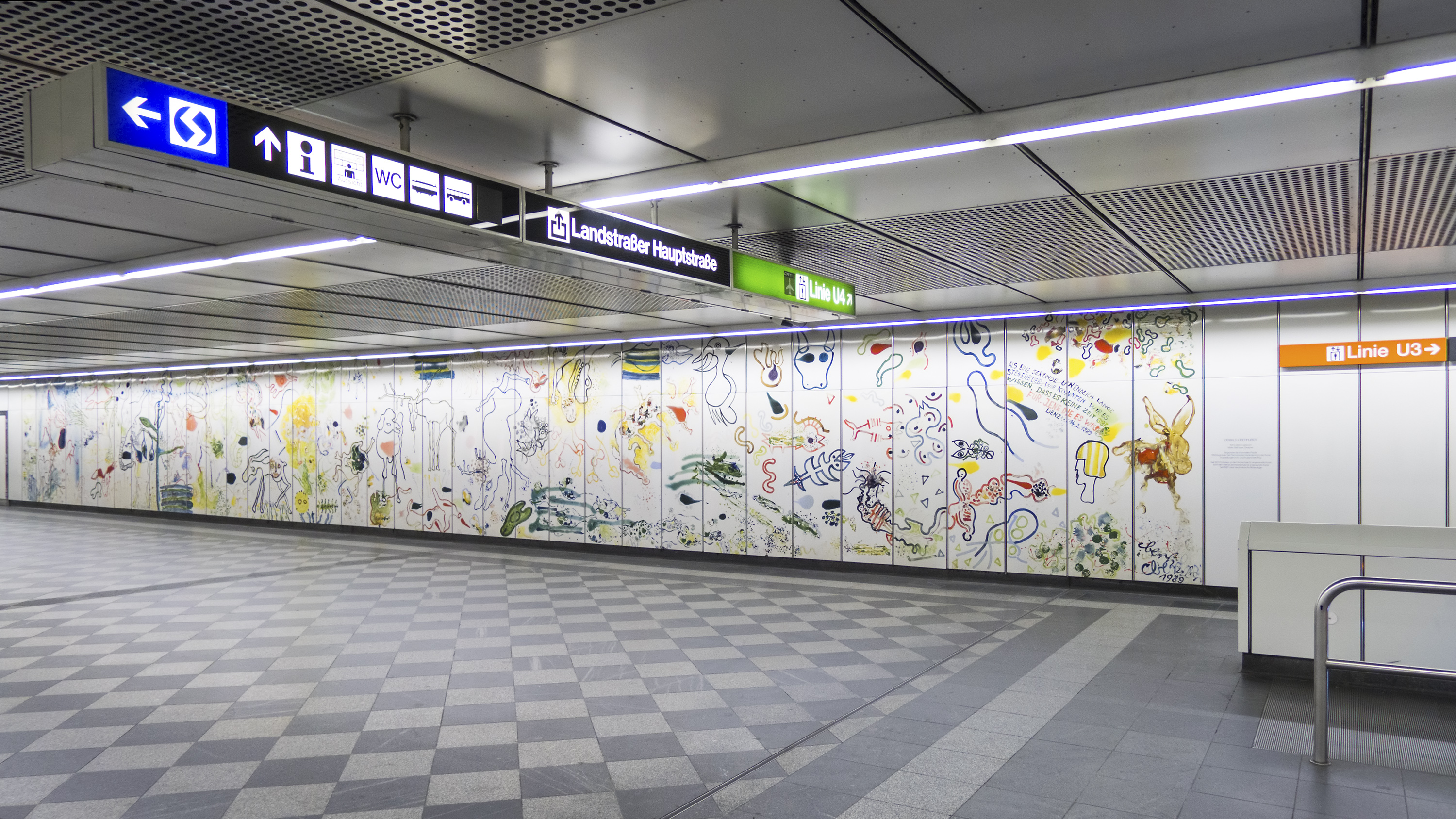 Underground station Bahnhof Wien Mitte in Vienna